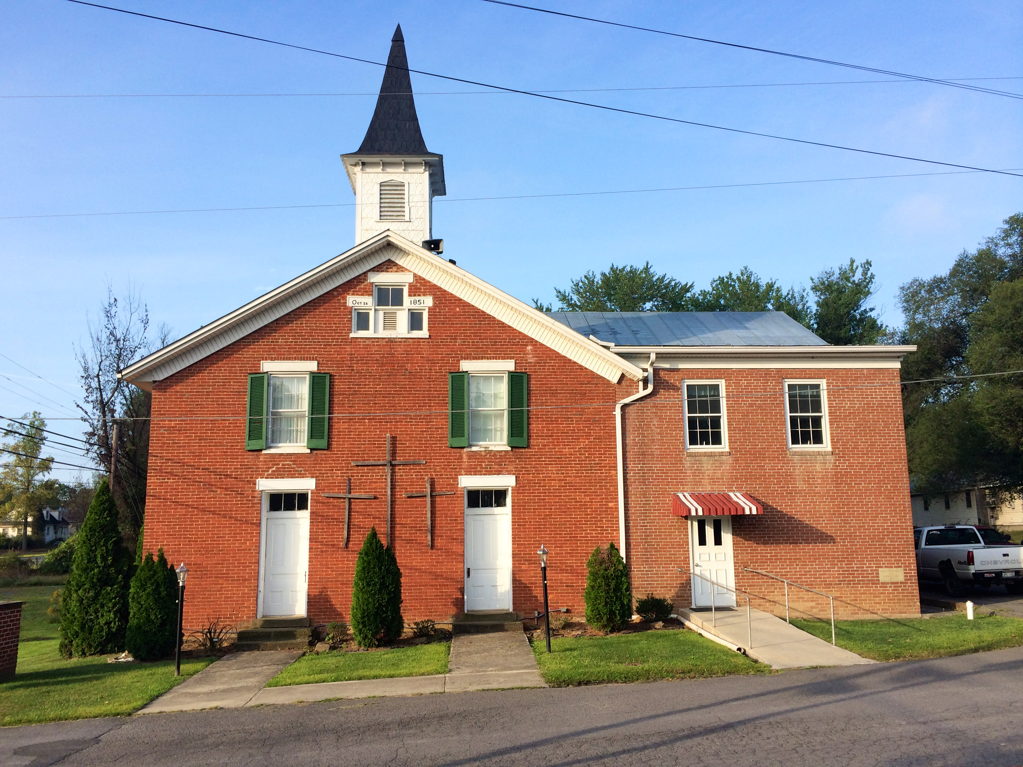 Springfield United Methodist Church (1851) is a mid-19th century United Methodist church on Vine Street in Springfield, West Virginia, United States. Photographed by Justin A. Wilcox of Washington, D.C.